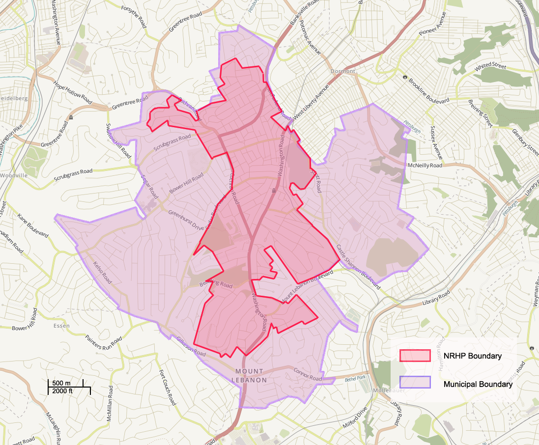 Map of the Mt. Lebanon Historic District in Mt. Lebanon, Pennsylvania, United States, showing approximate district boundaries. District boundaries are derived from the NRHP registration form. This map of Mt. Lebanon, Pennsylvania was created from OpenStreetMap project data, collected by the community. This map may be incomplete, and may contain errors. Don't rely solely on it for navigation.